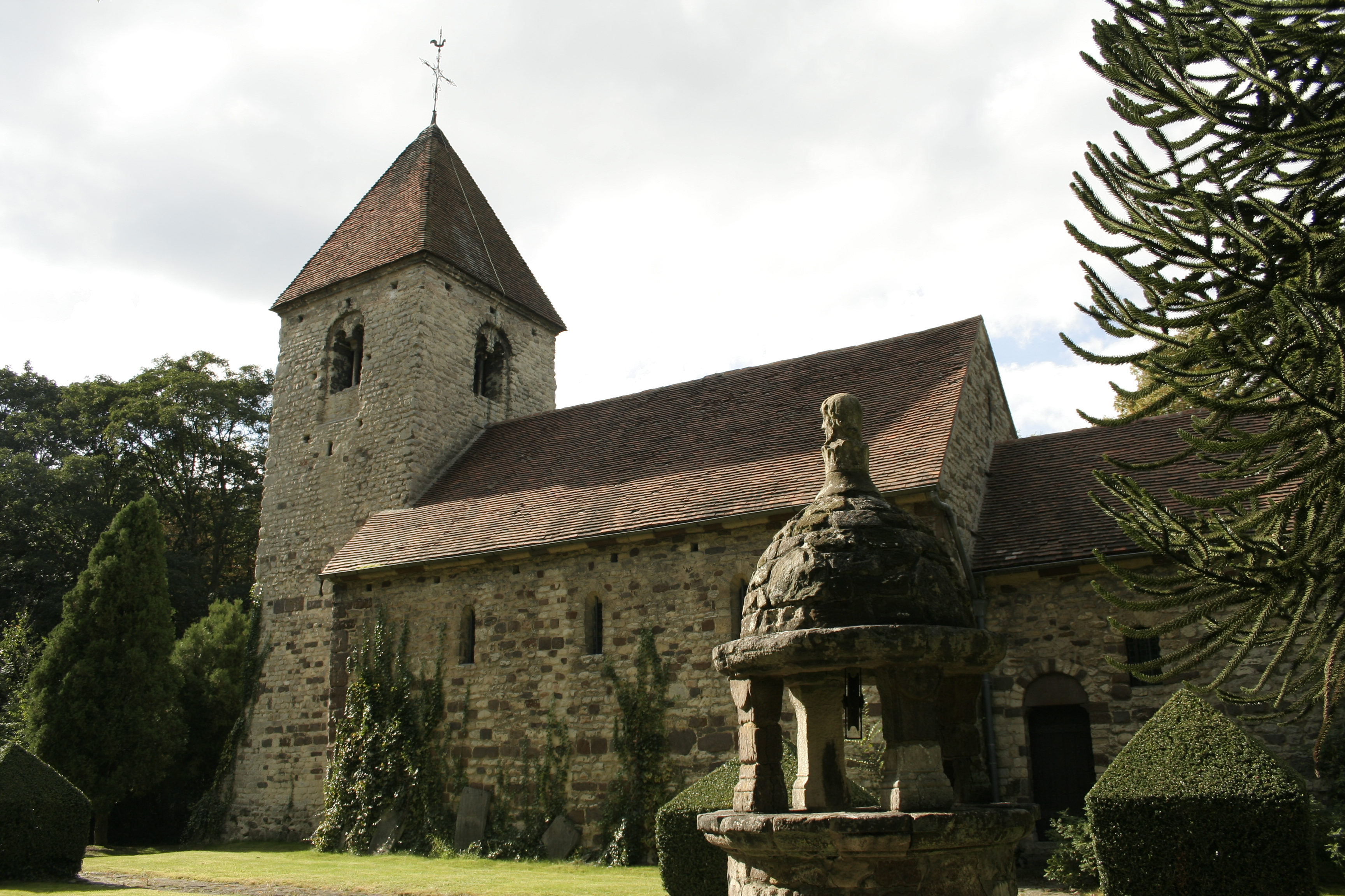 Auderghem (Belgium), the St. Anne chapel (XIIth century).